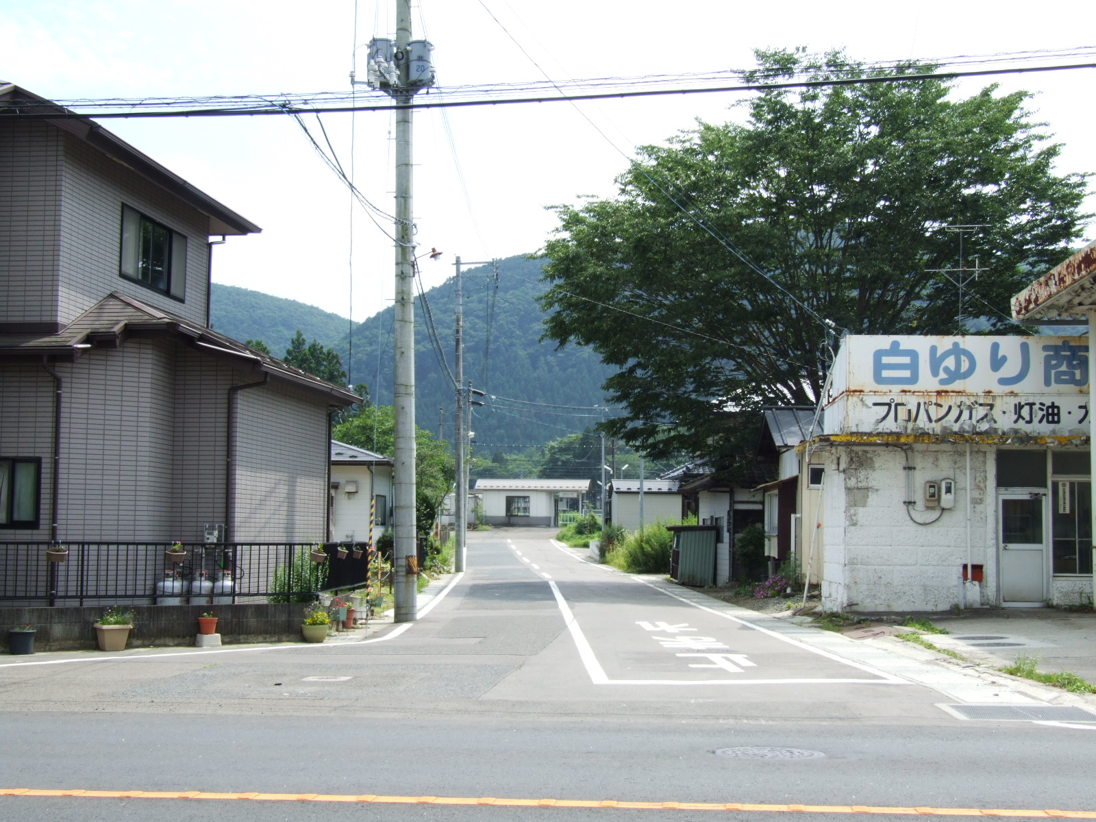 Miyagi Prefectural Road 219 Shirasawa Teishajō Line. Southward from the Route 48 (National Highway 48). Kamiayashi, Aoba ward, Sendai, Miyagi prefecture, Japan.